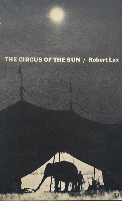 Photograph of the cover of the first paperback edition to The Circus of the Sun by Robert Lax